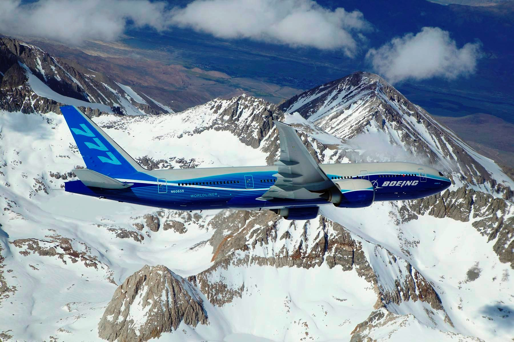 Boeing 777-200LR (N60659) banking left over mountain.